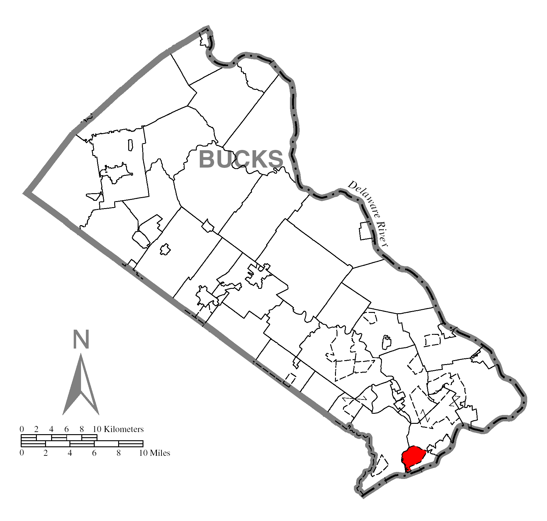 A map of Bucks County showing Croydon, Pennsylvania (alternate) highlighted on the map.